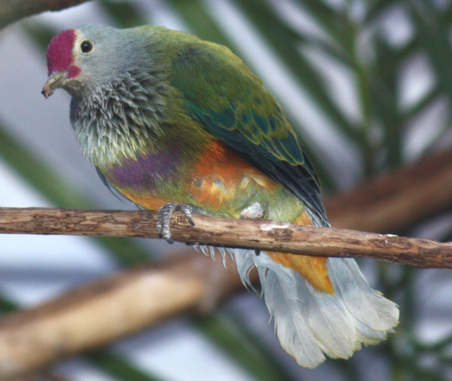 Mariana Fruit Dove at the Louisville Zoo